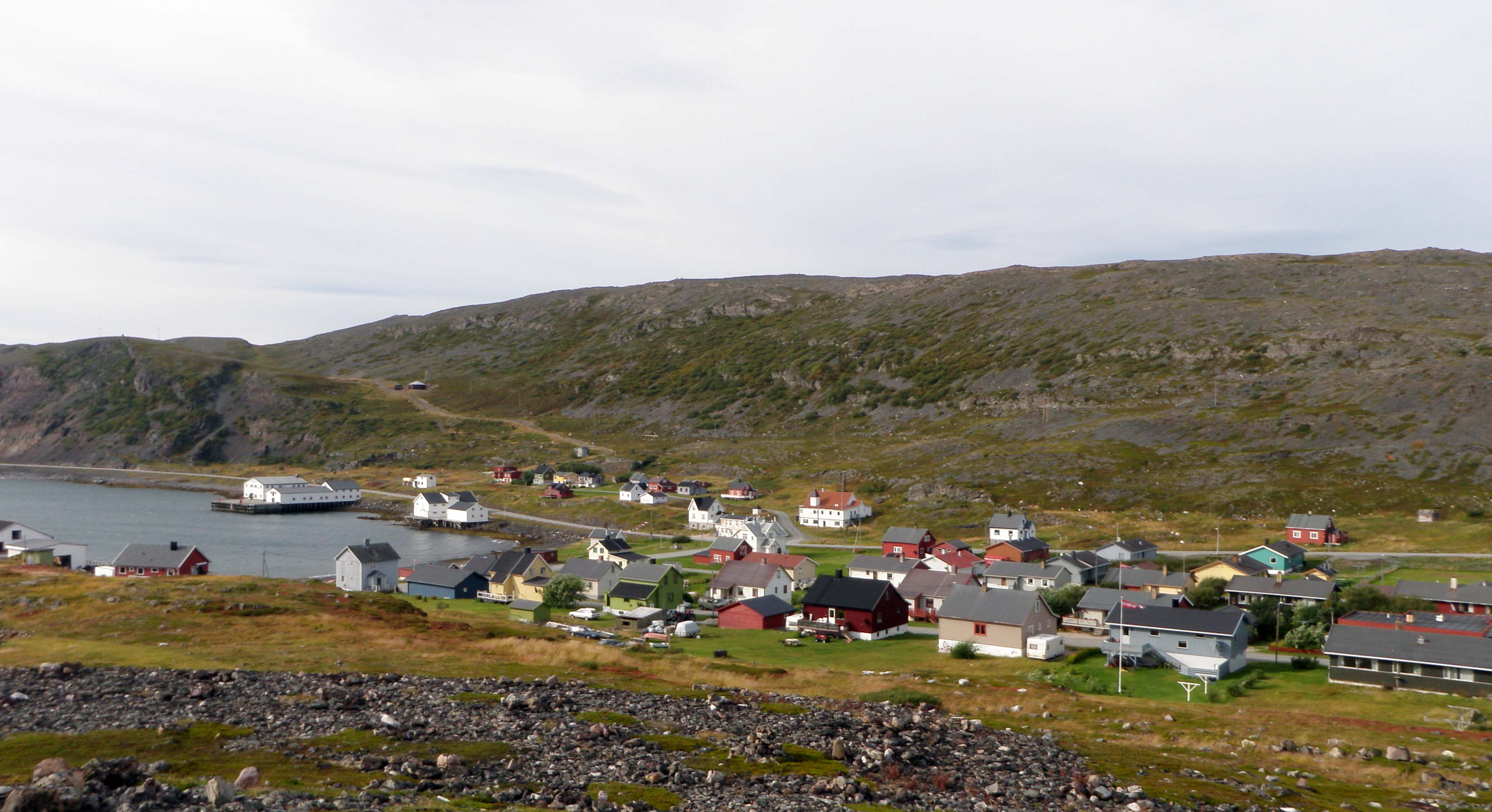 The village of Kongsfjord in Berlevåg, Finnmark, Norway. In the centre of the photo is the local country store (left), and Kongsfjord Chapel (right).